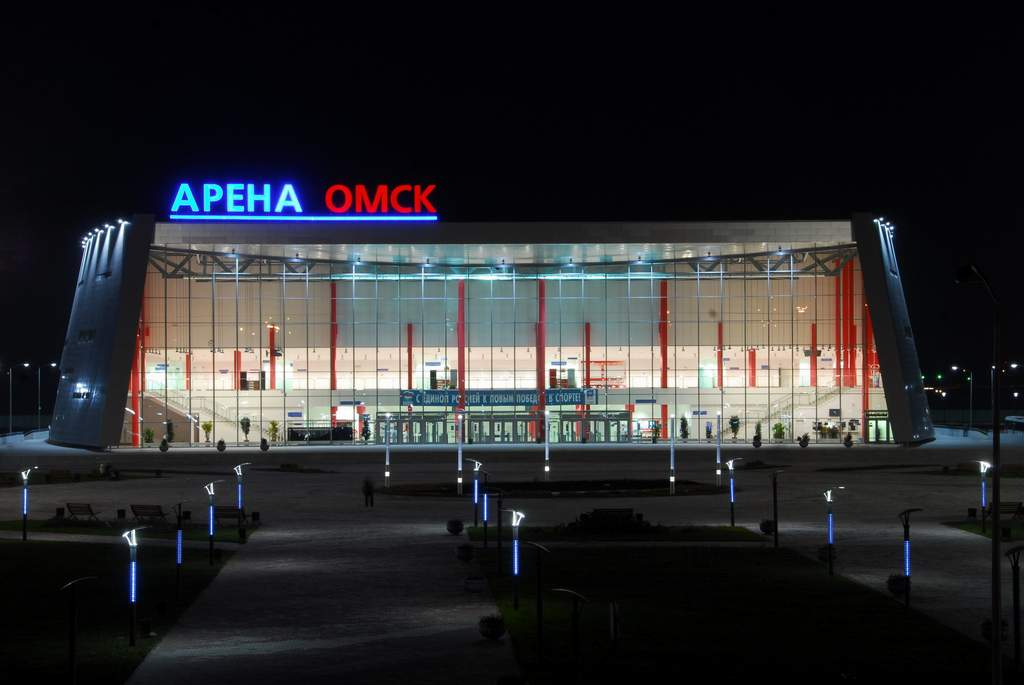 Foto Omsk Arena, ice palace in Omsk